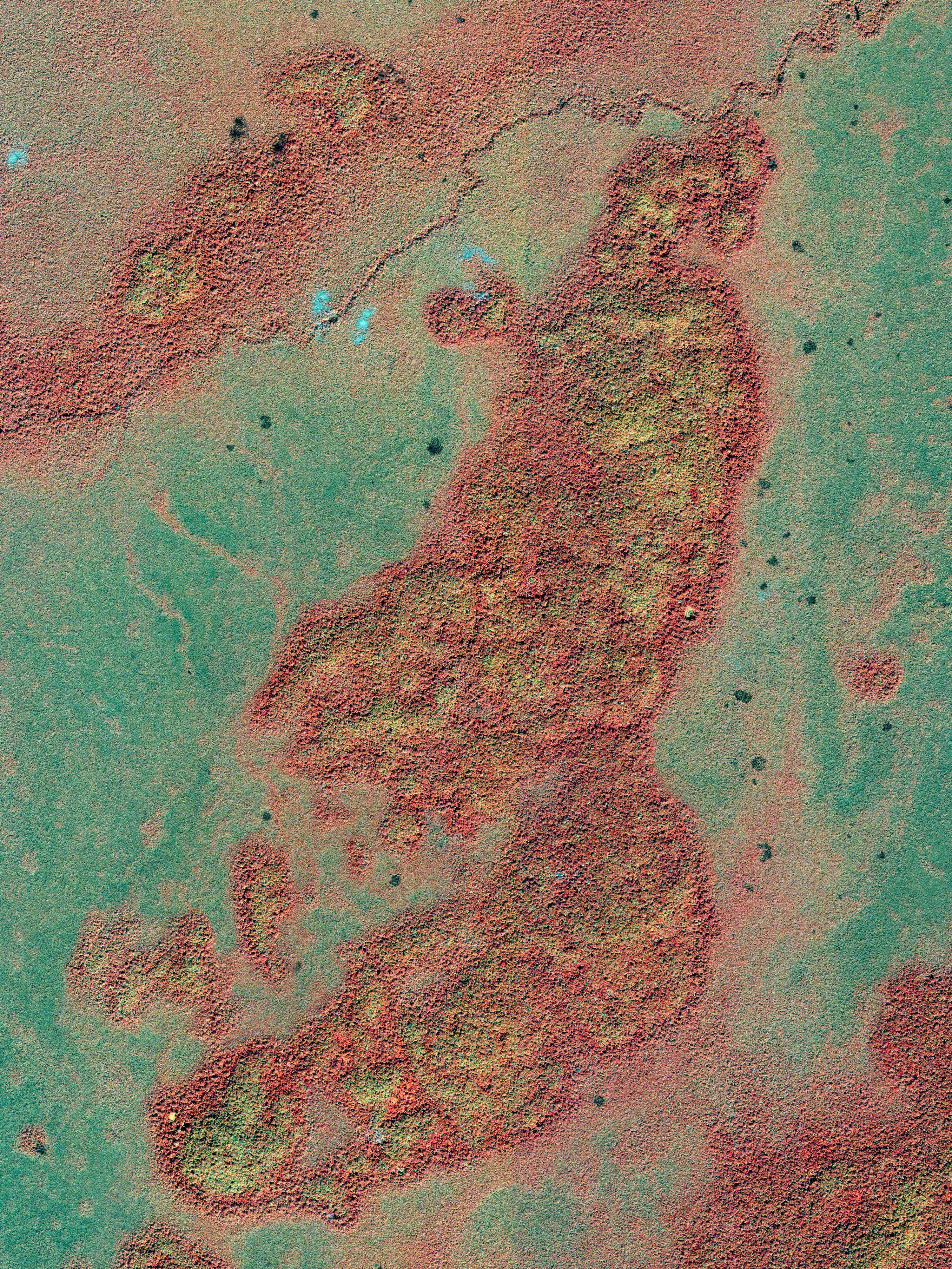 False-color image of a bajo (lowland area) in Guatemala. The forest covering sites of Mayan ruins appears yellowish, as opposed to the red color of surrounding forest. The more sparsely vegetated bajos appear blue-green.